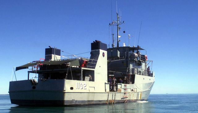 DMSD0210083 Service Depicted: Multi-National Command Shown: Combined Combat Camera Team 010511M1589G003 Operation / Series: TANDEM THRUST 2001 Starboard stern view of the MSA Brolga, Royal Australian Navy, simulating an oil spill while members of Marco Oil Recovery Systems contain and recover the spill to test their reaction time and recovery capabilities in the event of an oil spill during Exercise TANDEM THRUST 2001. TANDEM THRUST is a combined United States and Australian military training exercise. This biannual exercise is being held in the vicinity of Shoalwater Bay training area, Queensland, Australia. More than 27,000 Soldiers, Sailors, Airmen and Marines are participating, with Canadian units taking part as opposing forces. The purpose of TANDEM THRUST is to train for crisis action planning and execution of contingency response operations. Location: SHOALWATER BAY, QUEENSLAND AUSTRALIA (AUS) Camera Operator: SSGT JOHN GILES, USMC Date Shot: 11 May 2001